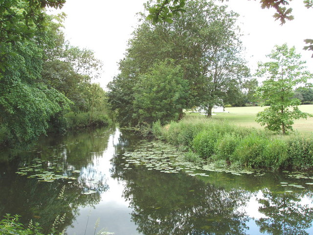 The River Colne flowing through the centre of Colchester, Essex. The cricket ground on the right, Castle Park Cricket Ground, is used for Essex county matches; to the left is Castle Park.